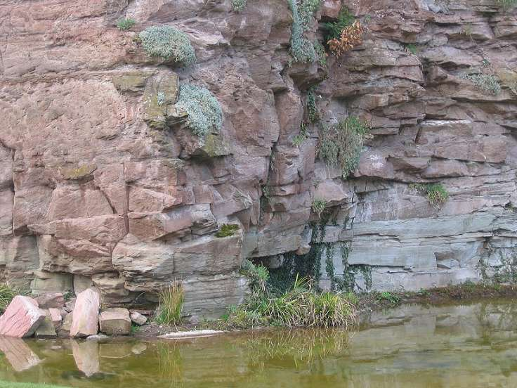 Outcrop of sandstones at Killesbergpark, Stuttgart, Baden-Wurttemberg, Germany. Stratigraphically the sandstones belong to the middle part of the German Keuper series (k3, Carnian, early Late Triassic) and are either referred to as Schilfsandstein or as Stuttgart Formation.[1]